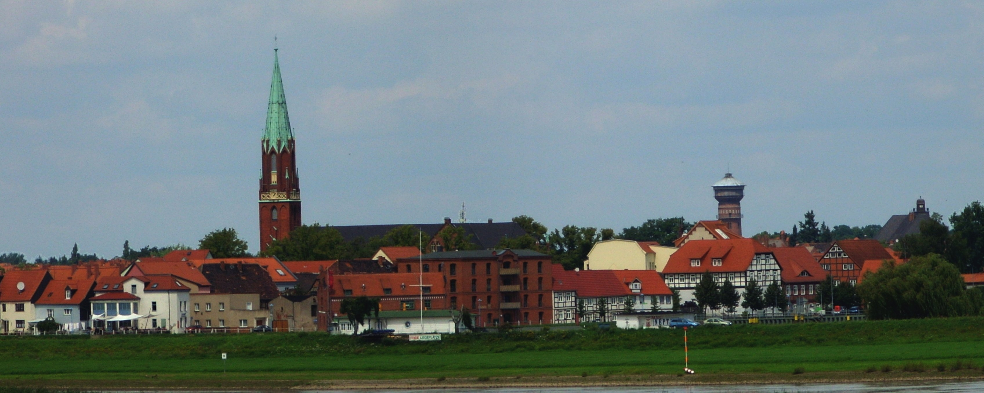 Panoramic of Wittenberge (Brandenburg, Germany), seen from harbour